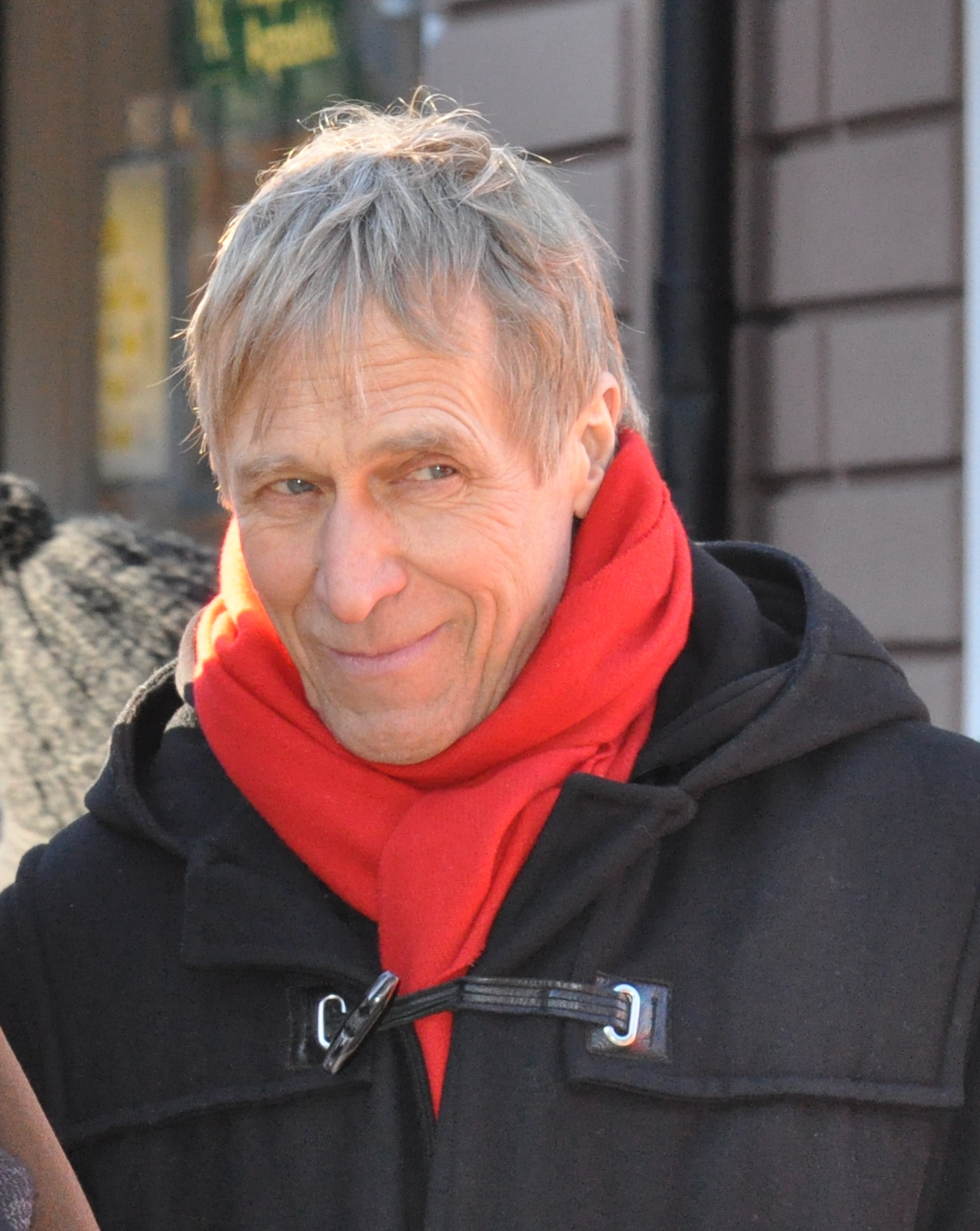 Finnish actor Petri Rajala in Turku, 2011.